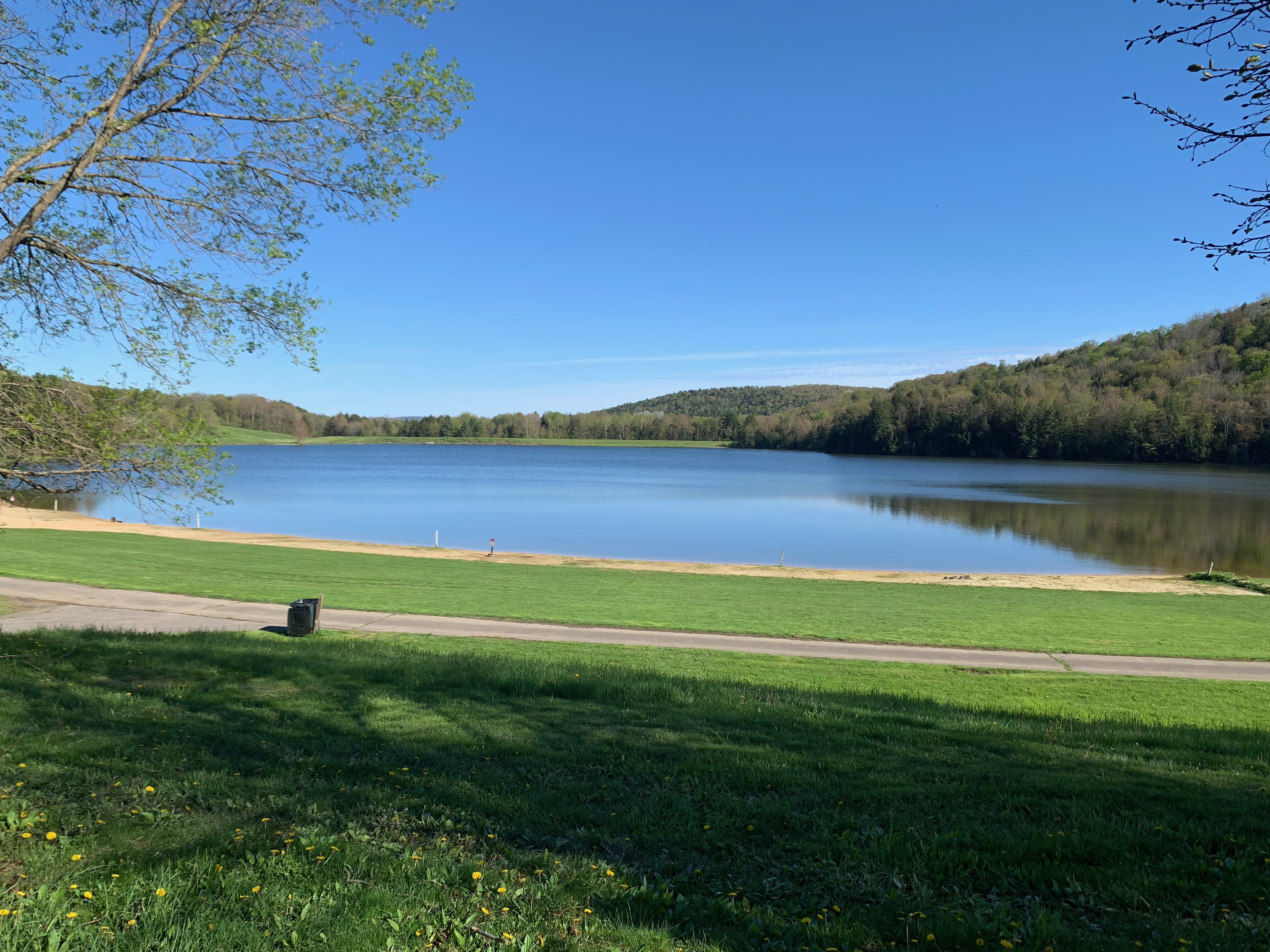 The pond in Nathaniel Cole Park, near Binghamton, NY, in May 2019.